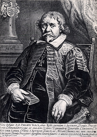 Philippus Vaecx alias Foxius, commandeur van de commanderie van Maastricht, 1628-1652, He wears the insignia of the Order of Saint-Anthony